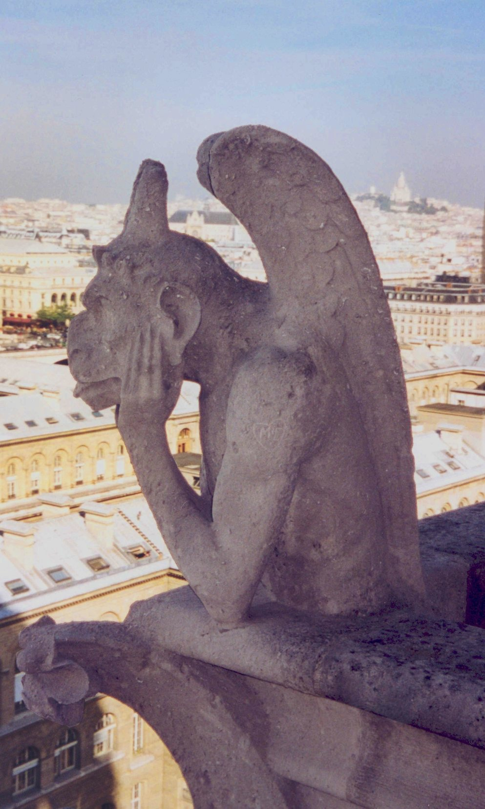 A Chimera on the Galerie des Chimères of Notre-Dame de Paris. In the background right is the Basilique du Sacré-Cœur de Montmartre.